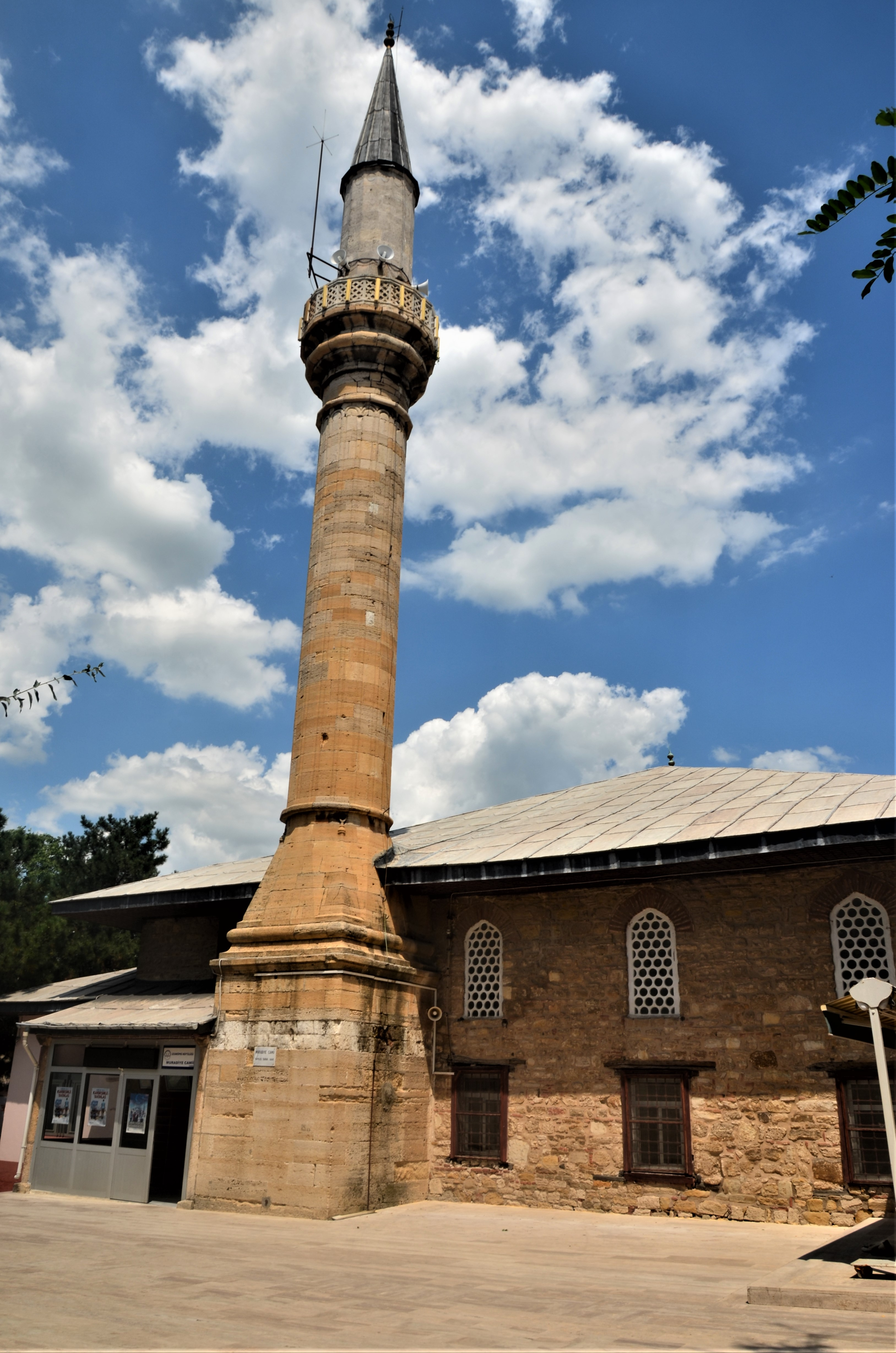 Mosque of Murad II (Muradiye Camii) in Uzunköprü, Edine Province, Turkey